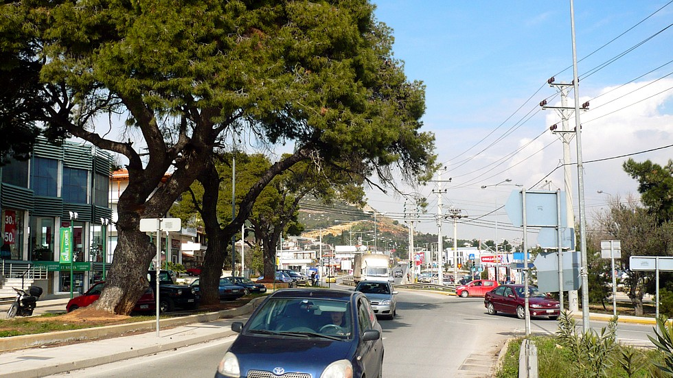 The Glika Nera Node